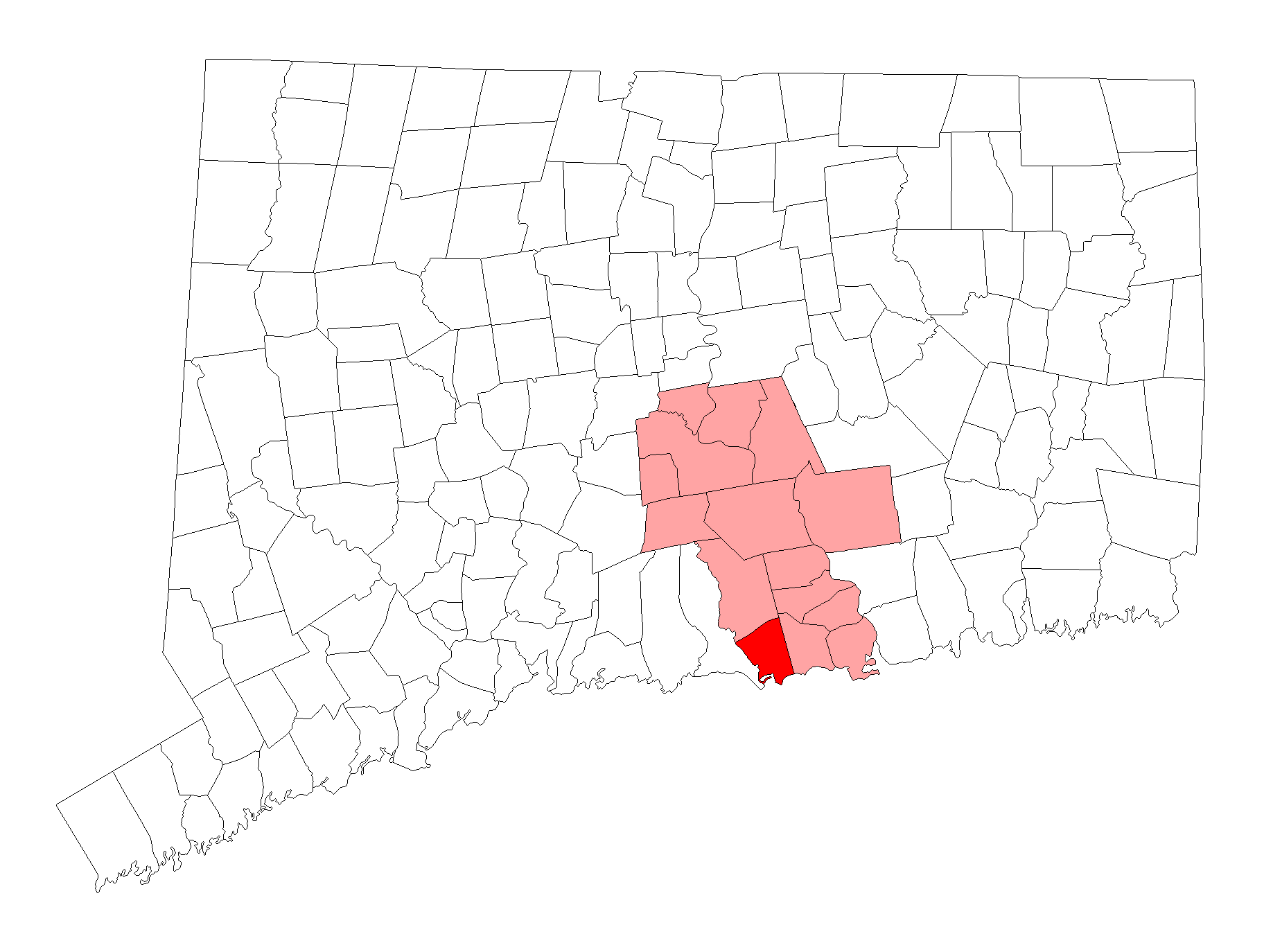 Clinton, Connecticut on Map of State